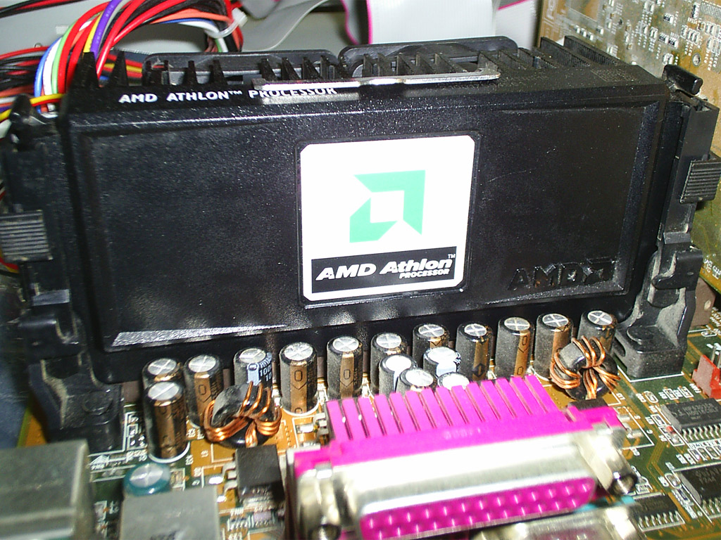 AMD Athlon model 2